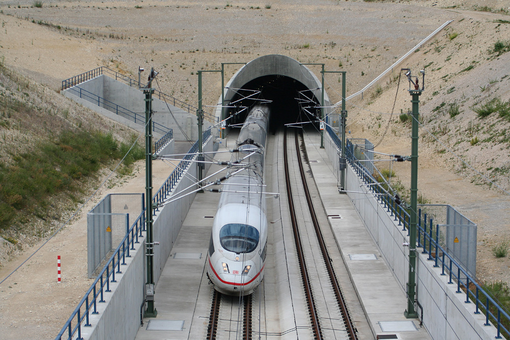 An ICE 3 train leaves the south entrance of the Geisberg-Tunnel, Nuremberg-Munich high-speed railway line